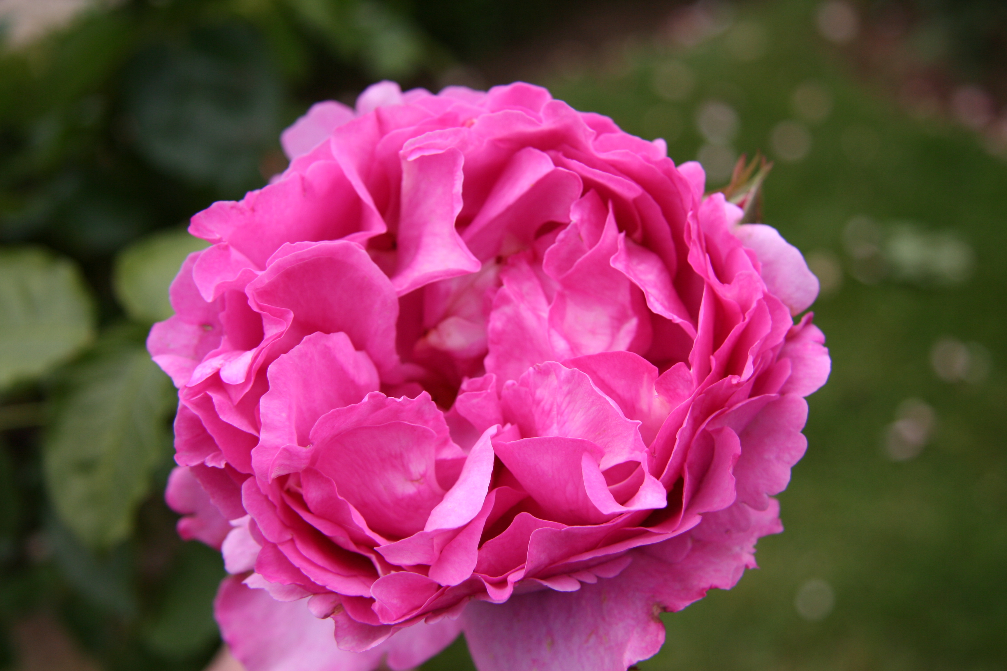 Yves Piaget rose - Bagatelle Rose Garden (Paris, France).